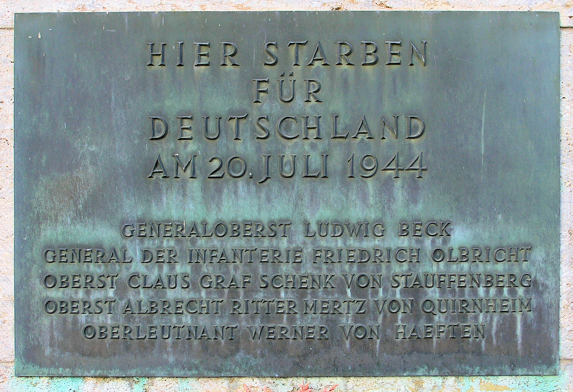 Memorial plaque, Widerstandskämpfer vom 20. Juli 1944 , Stauffenbergstraße 13, Berlin-Tiergarten, Germany